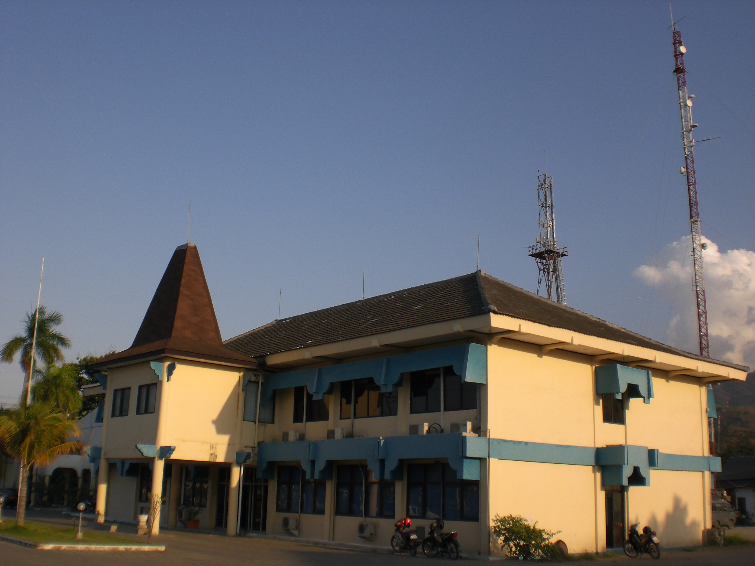 Radio-Televisão Timor Leste building in Dili/Timor-Leste